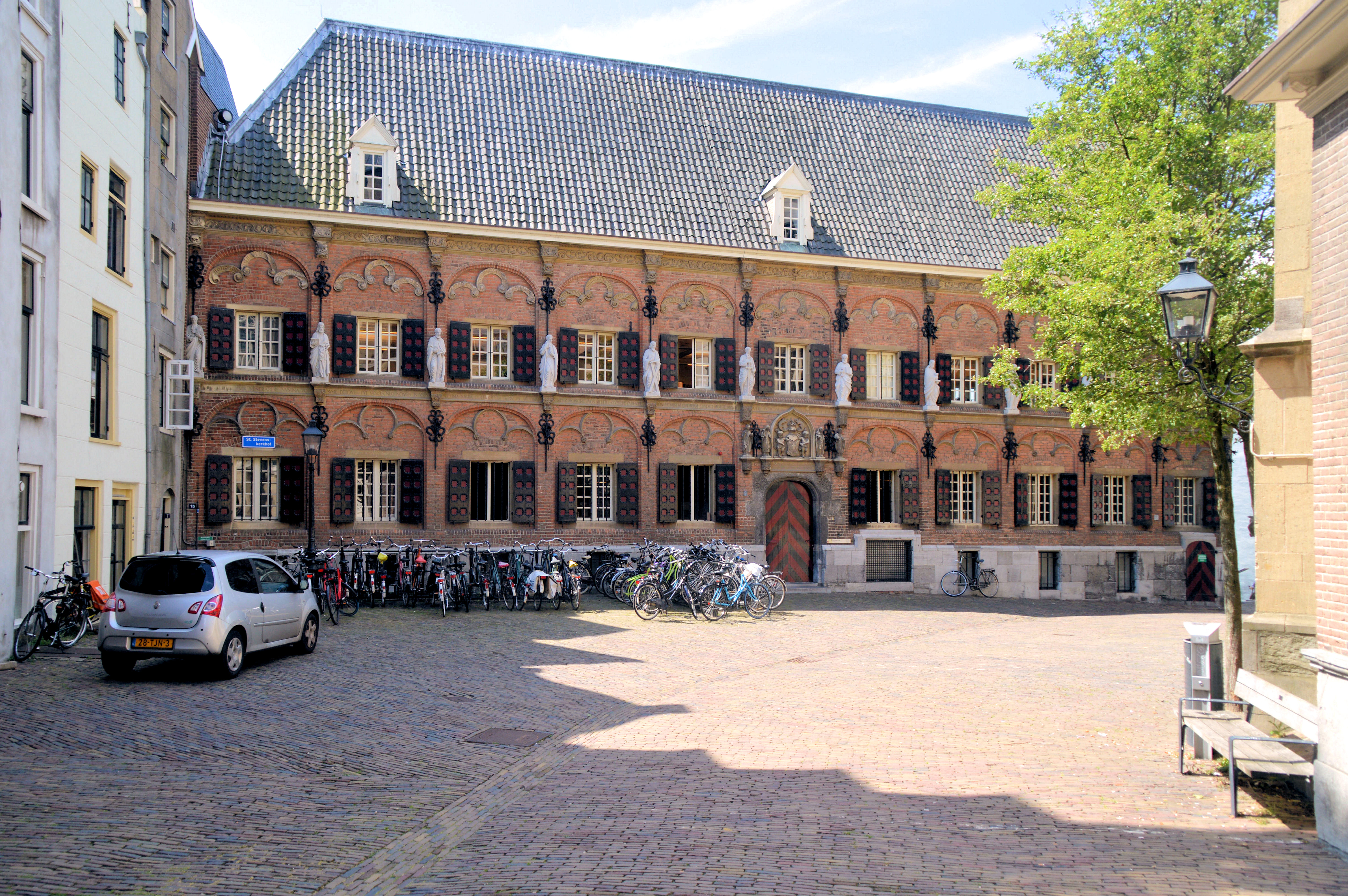 Latin School (Nijmegen) Herman van Herengrave 1545 Stedelijk Gymnasium Nijmegen. National monument 31 170.